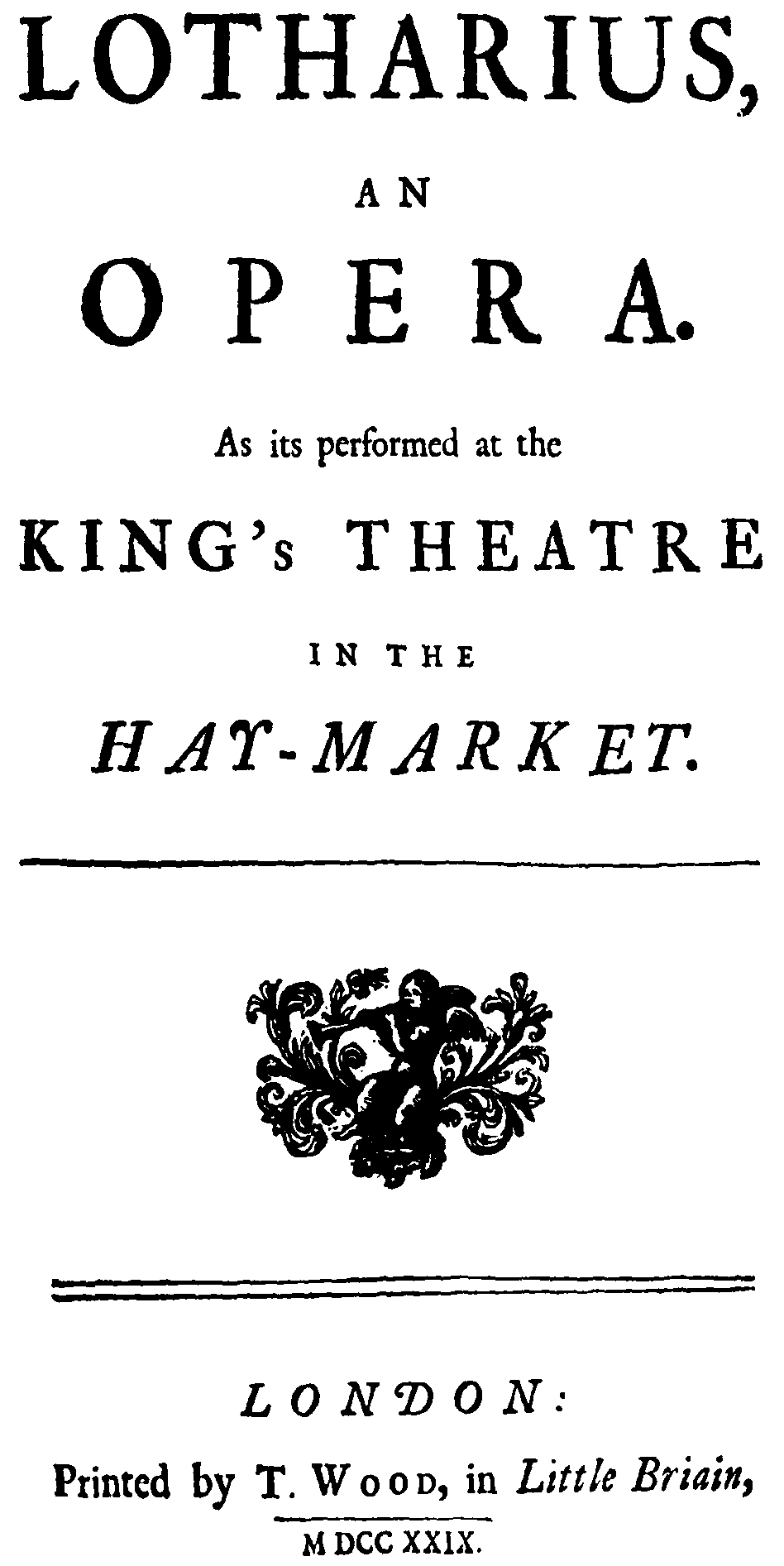 Georg Friedrich Händel - Lotario - title page of the libretto - London 1729